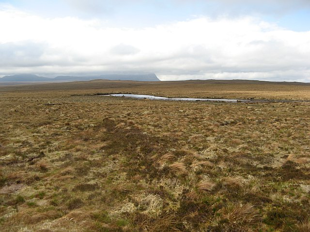 A' Mhòine View across the peaty wastes of the Moine plateau towards Ben Hope.